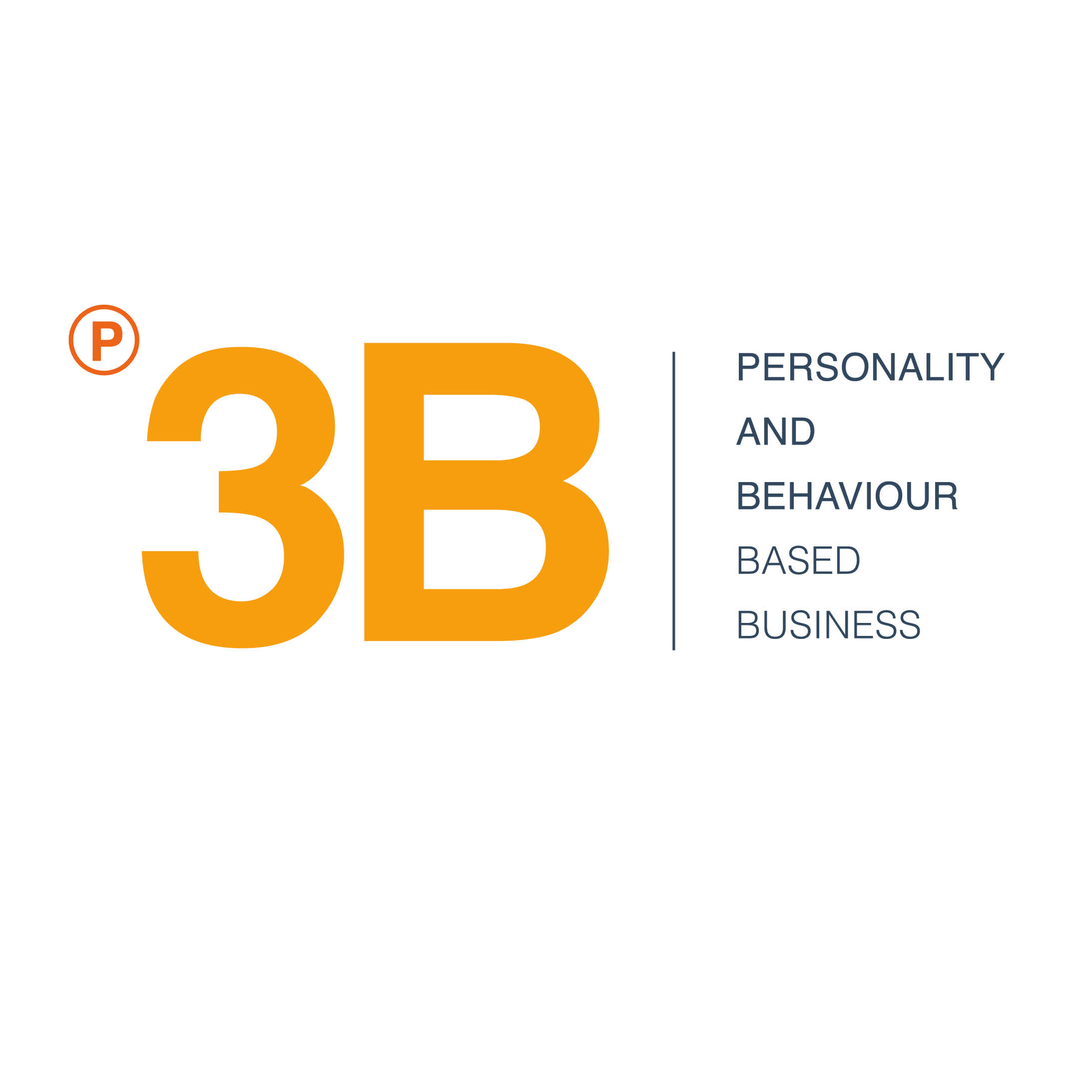 3B Behaviour Based Business